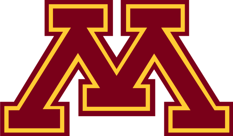 Logo for the University of Minnesota